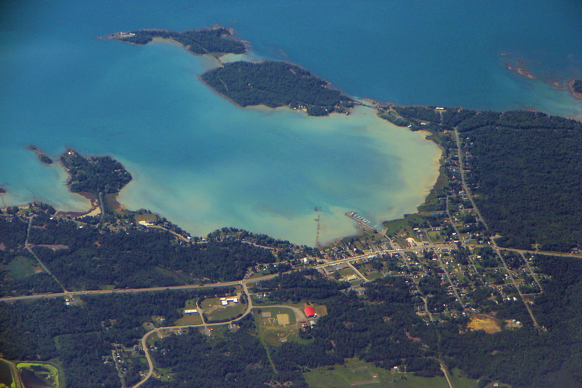 Aerial view of Bruce Mines and Bruce Bay, Ontario, Canada